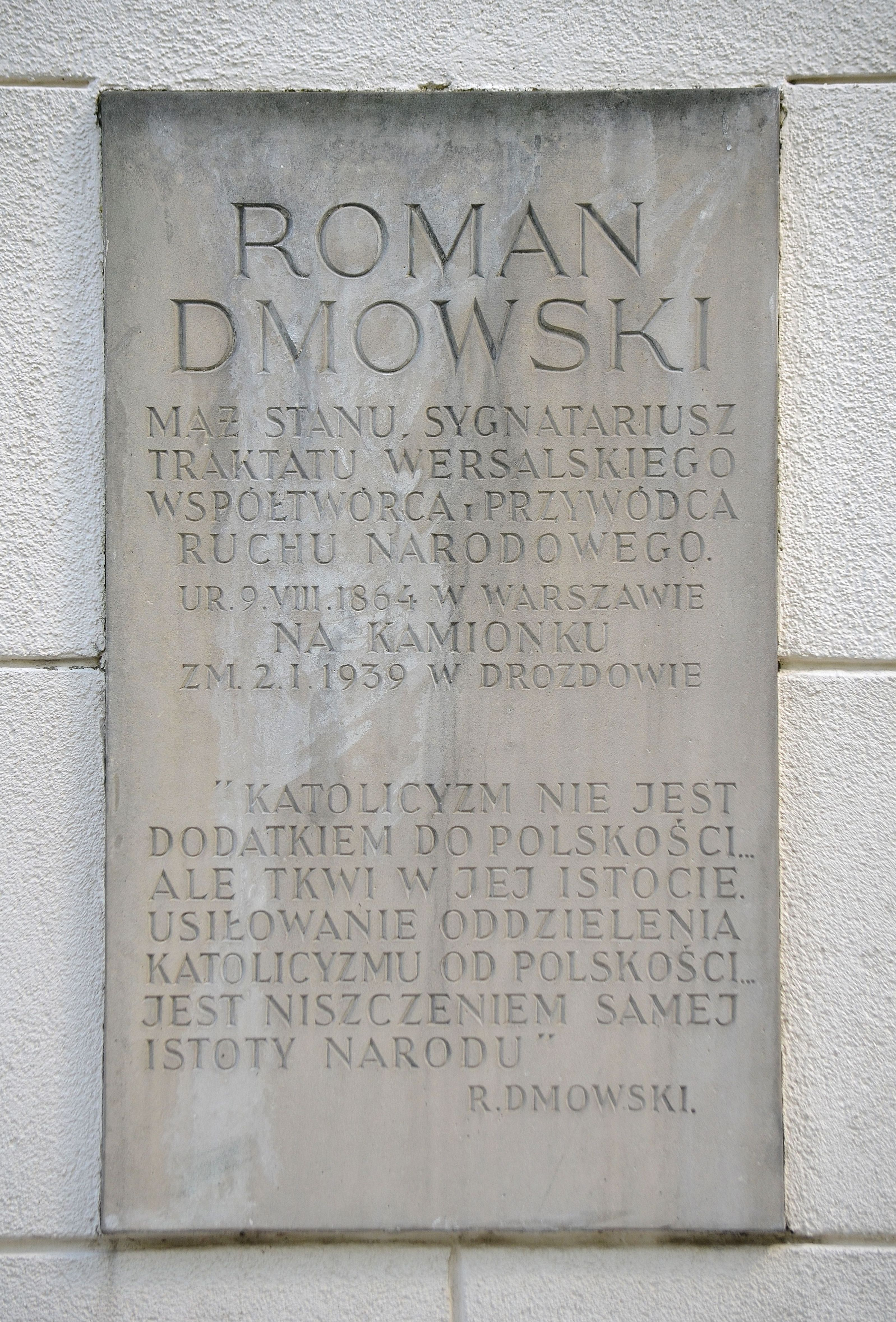 Plaque in memory of Roman Dmowski on the facade of Our Lady of Victory church in Warsaw